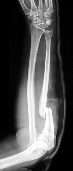 X-ray of Monteggia fracture of right forearm, showing fracture of ulna and dislocation of radius